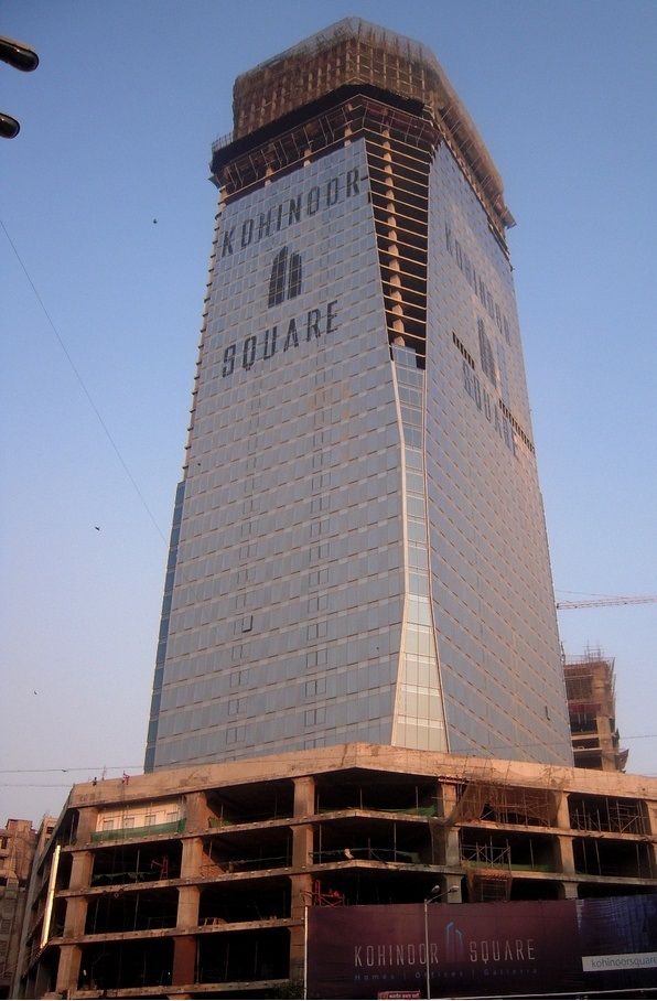 Kohinoor square is the Tallest Commercial building in India as well as in South Asia.